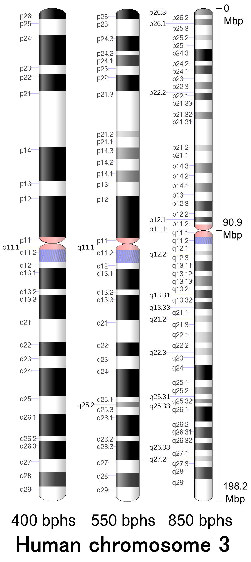 Ideograms of G-band pattern of human chromosome 3 in three different resolutions (400, 550 and 850 bphs, bands per haploid set). Different resolutions are corresponding to different band patterns observed through mitotic phase (about relation between banding resolution and mitotic phase, see, for example, Fig.3 in W Sethakulvichaia (2012)). Legend: Black and gray is Giemsa positive. Red is centromere. Light blue is variable region. Dark blue is stalk. At the right, centromere position (center) and q arm terminus position (bottom), counted from p arm terminus (top) in Mbp (mega base pairs), are labeled. Physical length (sometimes referred as "absolute length") is not labeled. Because physical length of chromosomes vary while mitosis. (typical human chromosome physical length is in the order of from several micrometers to ten and several micrometers. See, for example, Category:Human chromosome images with scale bars.).